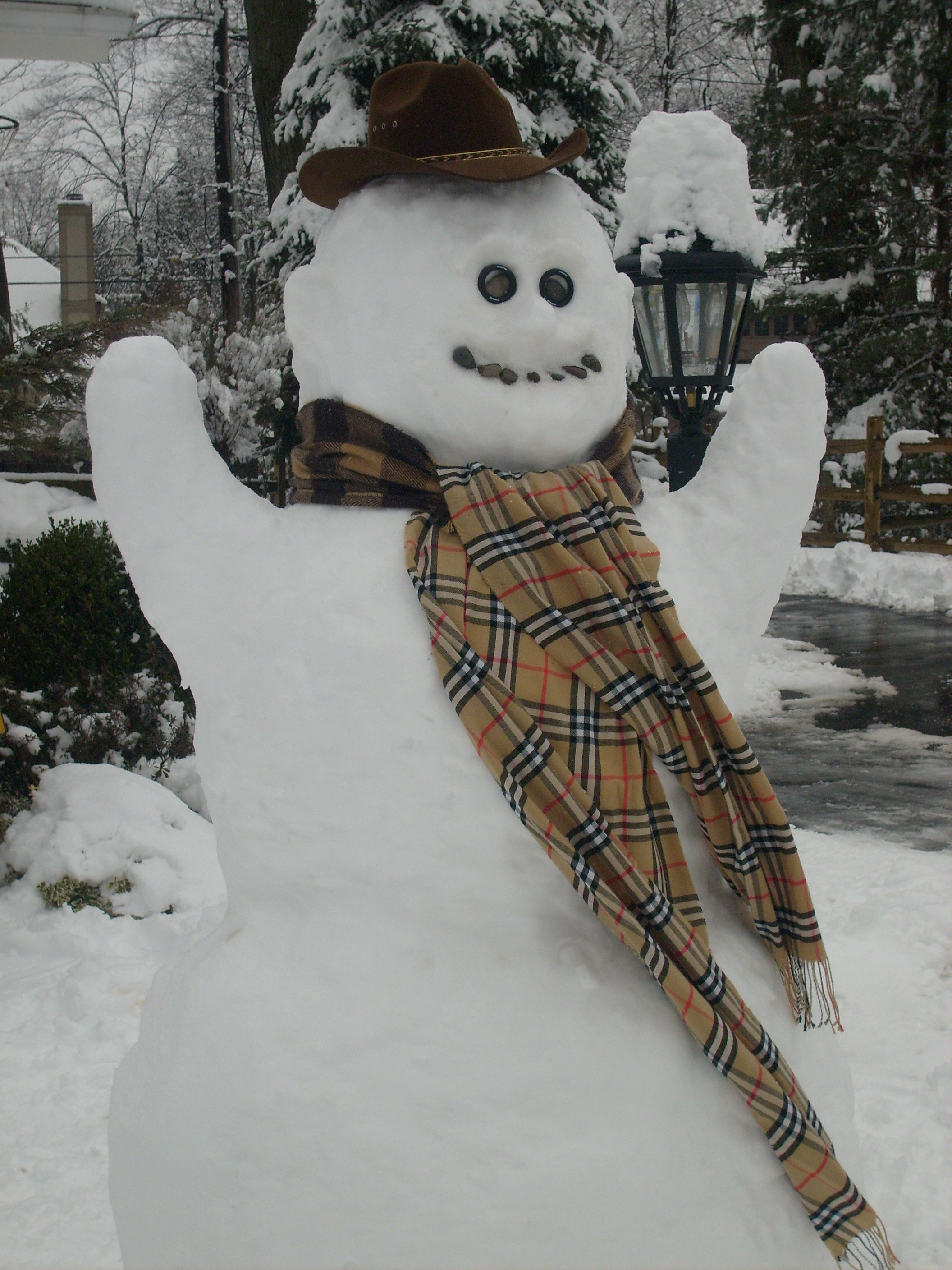 A picture of a six foot tall snowman in Ohio.